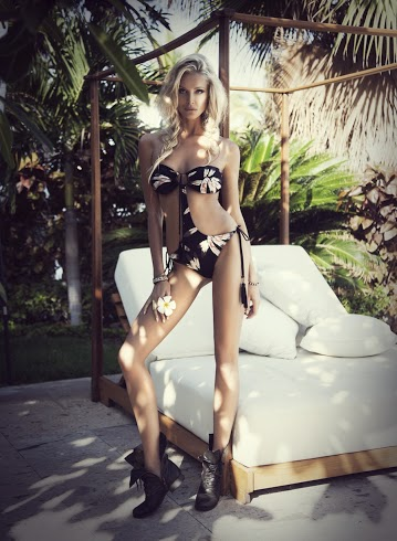 Picture of Monica Hansen